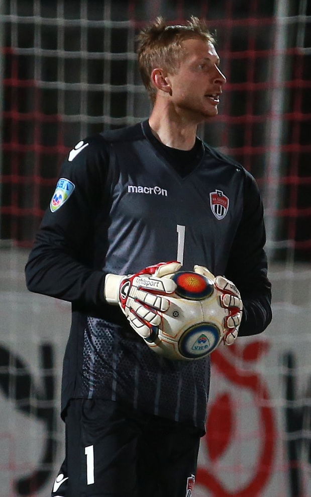 Dmitri Tsitsilin with FC Khimki in a game against FC Lokomotiv Moscow.